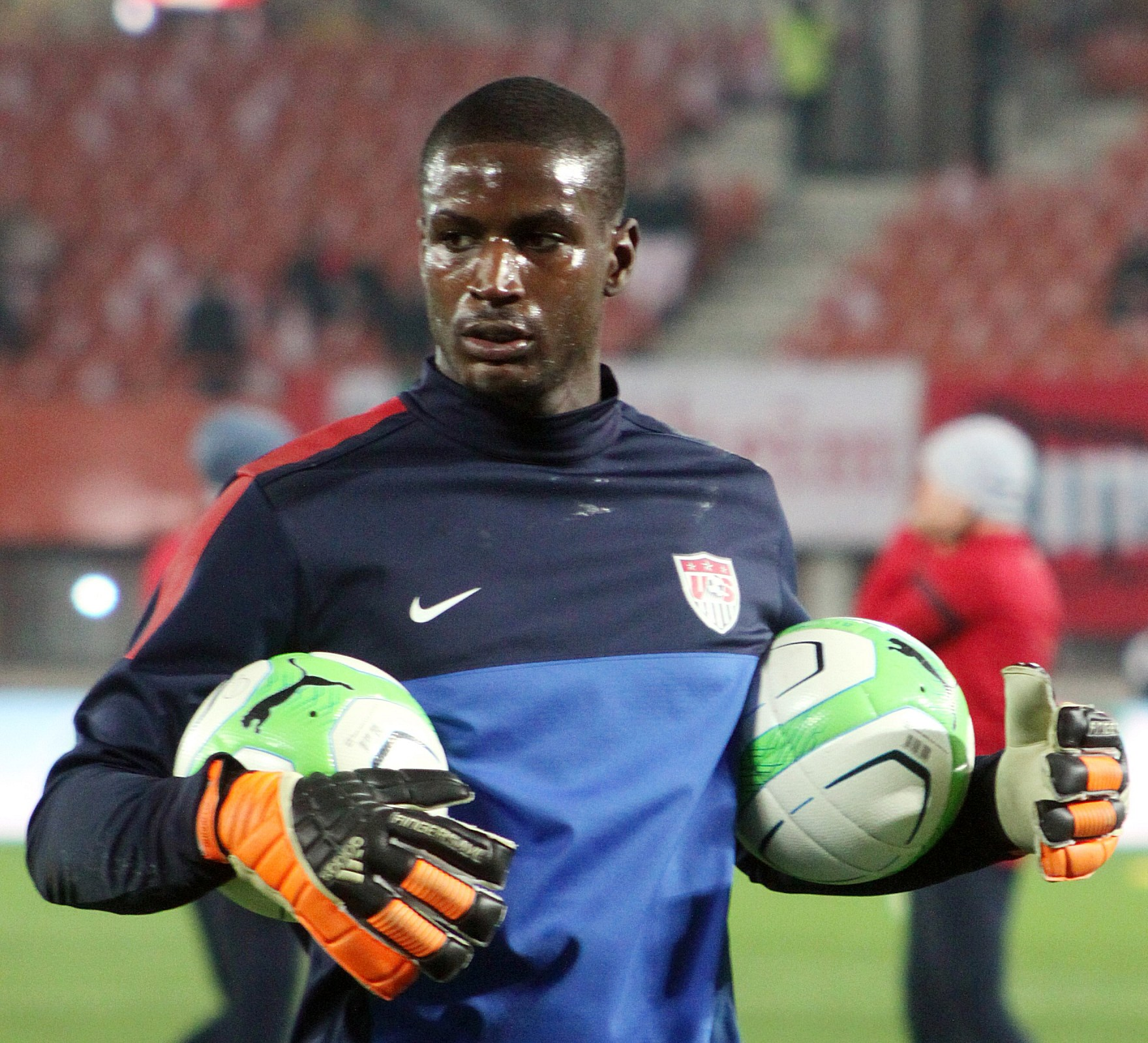 Friendly-match Austria vs. USA (1:0) in the Ernst-Happel-Stadion in Vienna at 2013-03-22. – The photo shows Bill Hamid (USA).